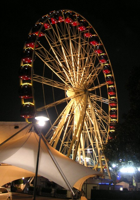 Sydney Royal Easter Show